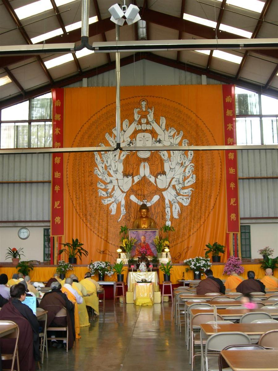 Temple interior at the City of Ten Thousand Buddhas — in Talmage, Mendocino County, Northern California.